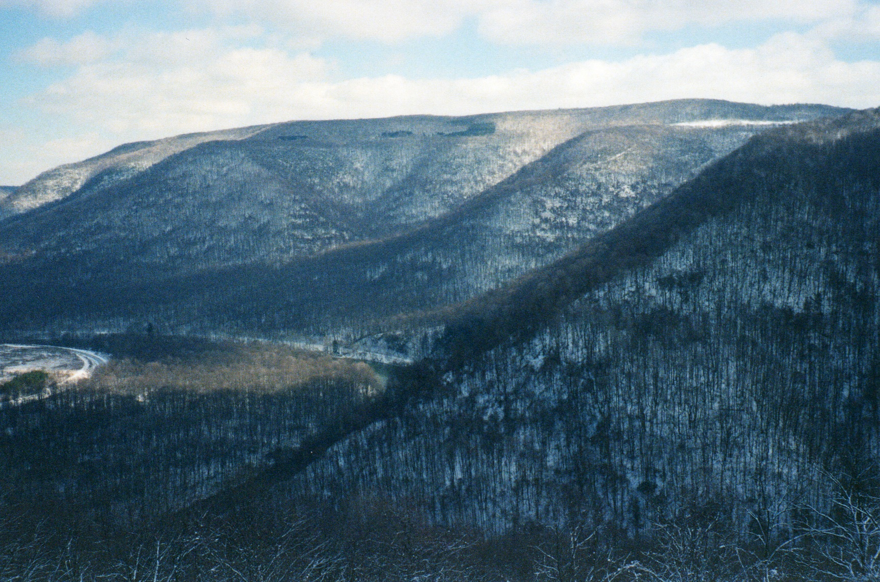 Laurel Mountain and the Yough Gorge